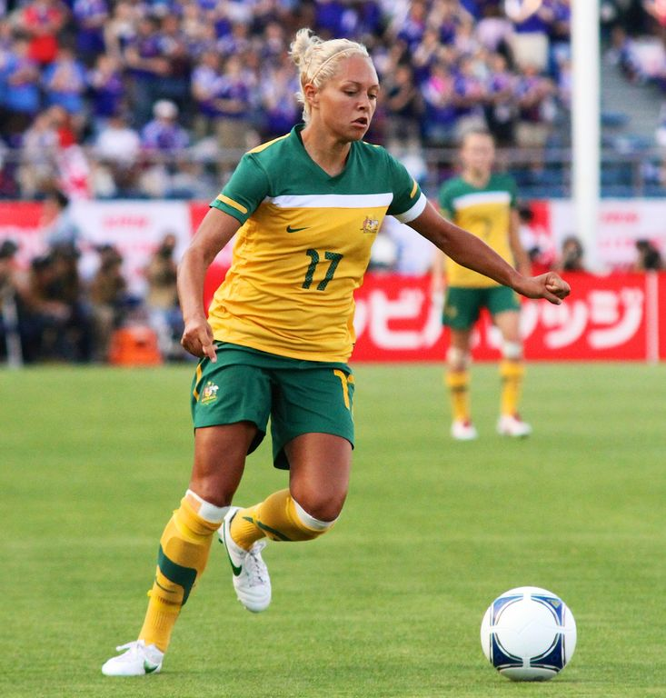 Australian WNT forward Kyah Simon playing against the Japan WNT in Tokyo Stadium, Tokyo in June 2012